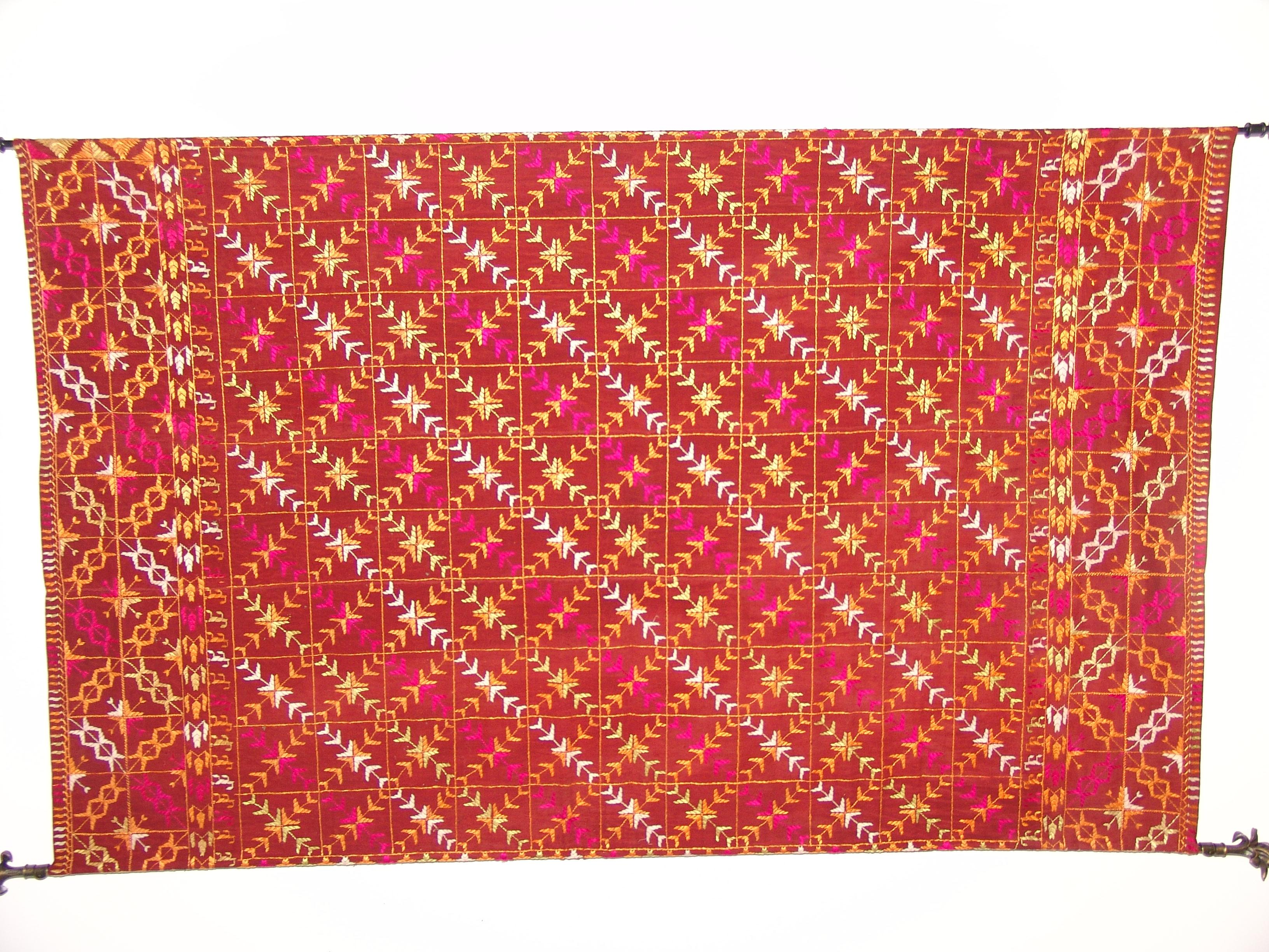 Phulkari embroidery from Patiala. Photo: IP Singh. bright colours to be used in this embrodery.